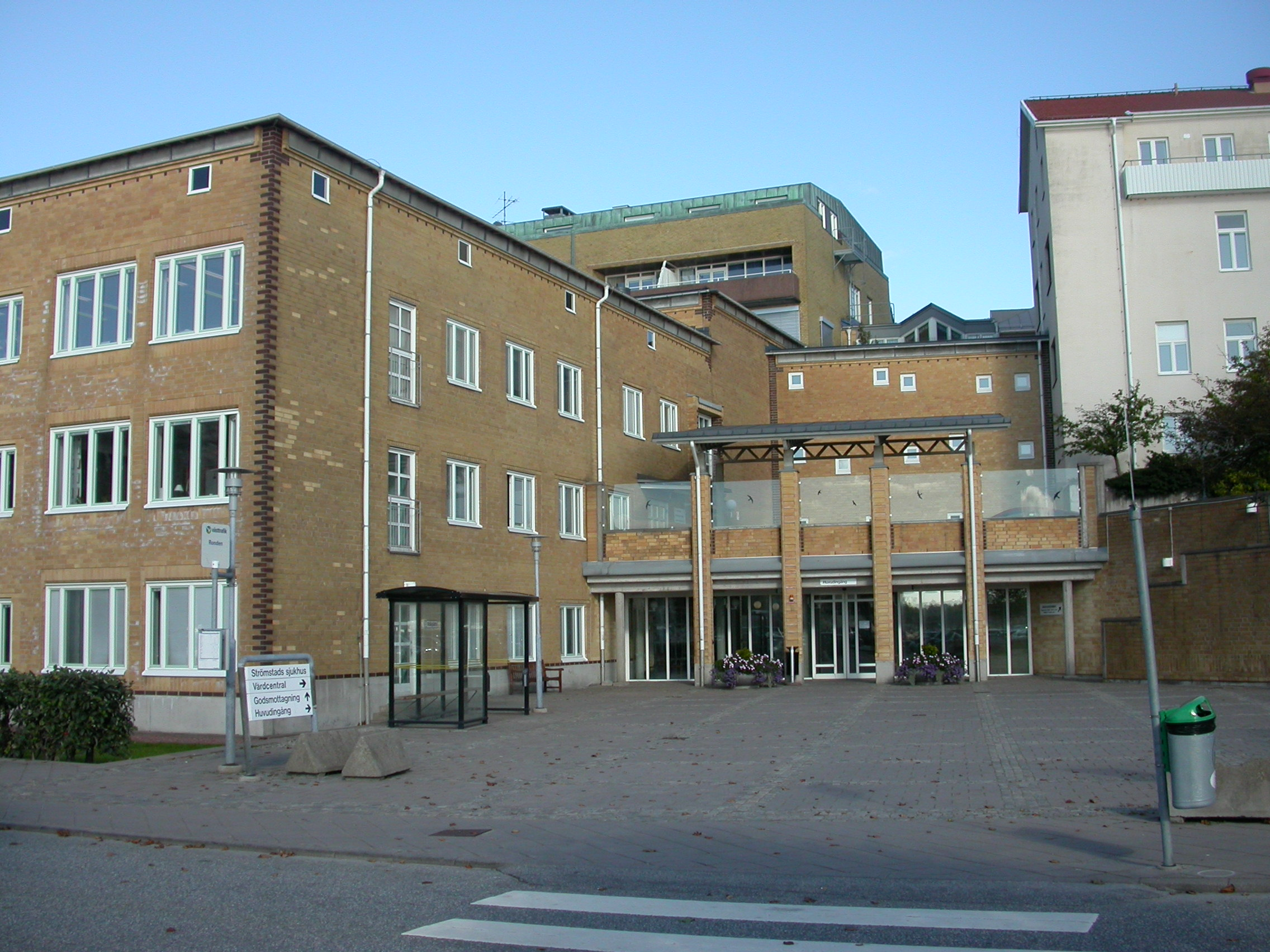 Hospital of Strömstad